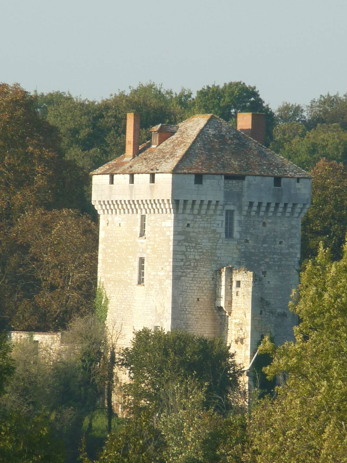 castle of Les Pins, Charente, SW France